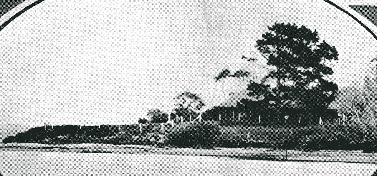 Photo originally in oval frame in centre of page of Centenary of Albany 1927 - with caption Residency Point To-day